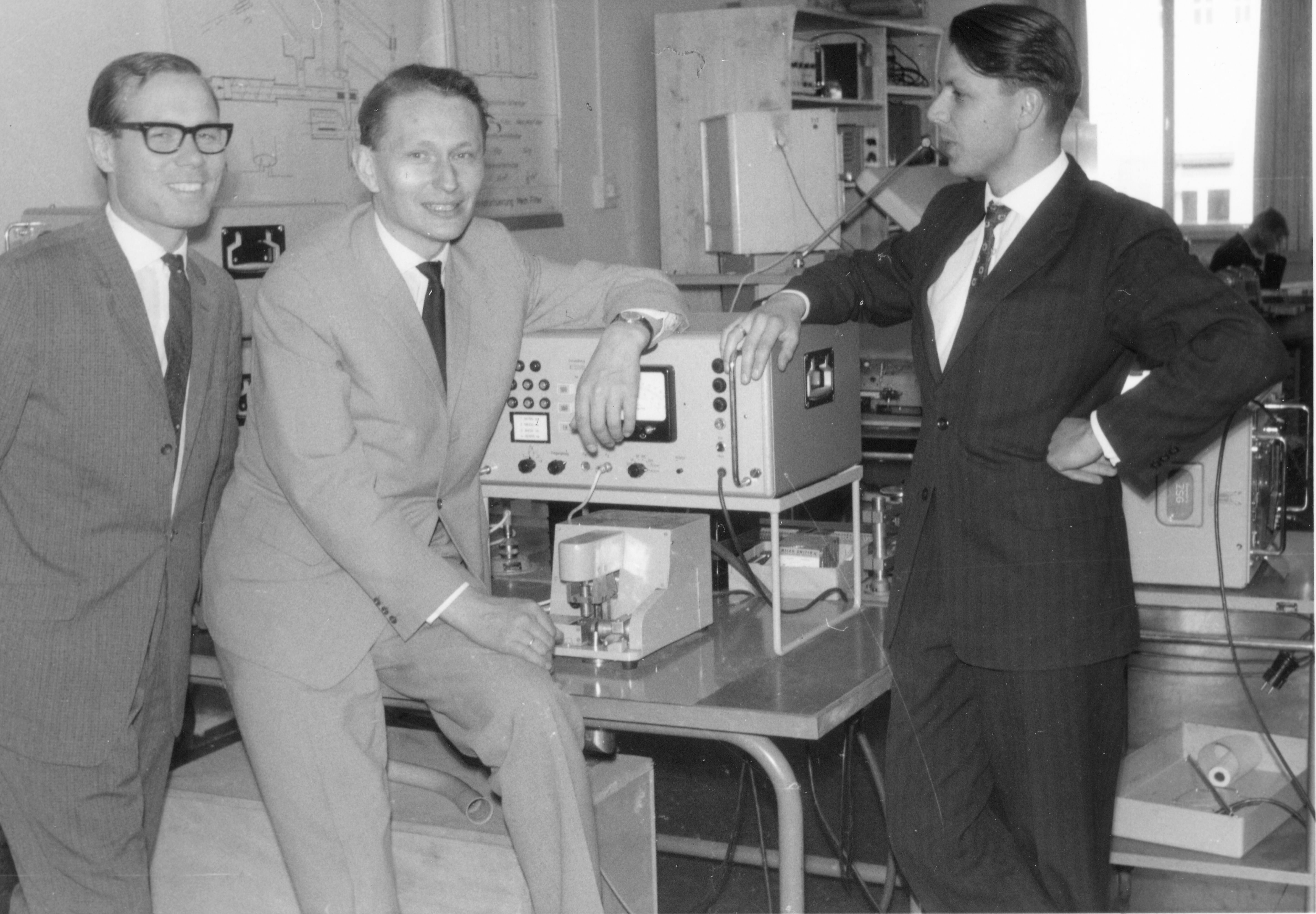 Manfred Börner 1961 Telefunken Forschungsinstitut Ulm